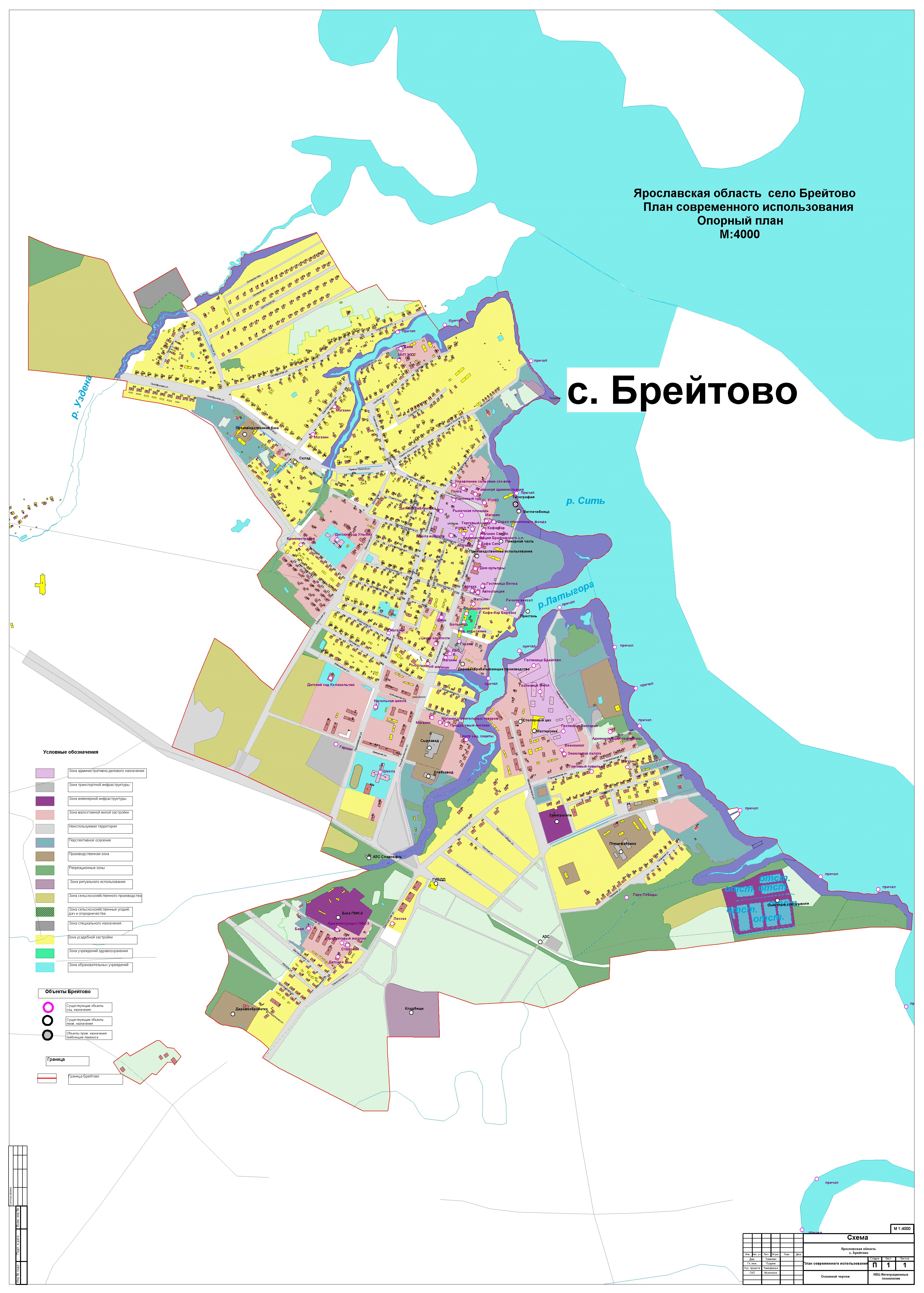 General plan of Breytovo rural settlement 2008. Plan of modern use of Breytovo.